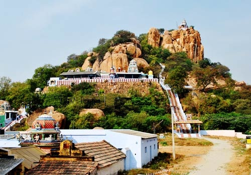 Kabilarmalai Murugan Templa